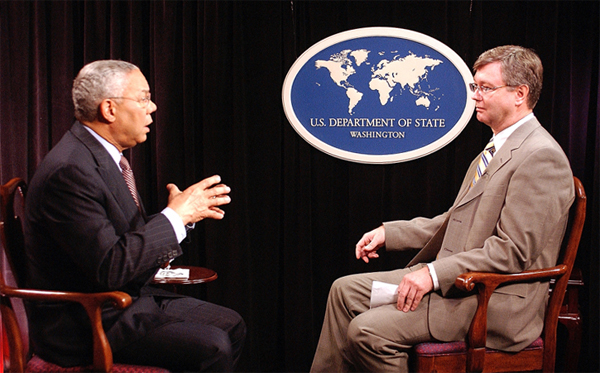 American Secretary of State Colin Powell was interviewed on Norwegian Broadcasting Corporation (NRK) by Jan Espen Kruse in Washington, D.C.